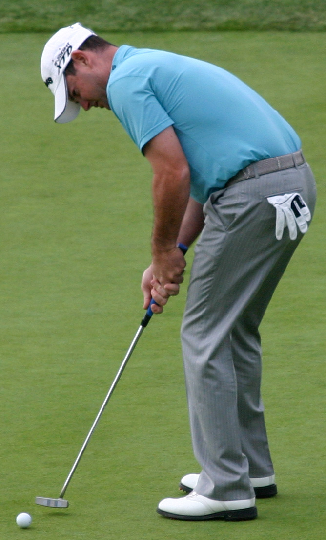 Rory Sabbatini putting during a practice round for the 2008 US Open at Torrey Pines.